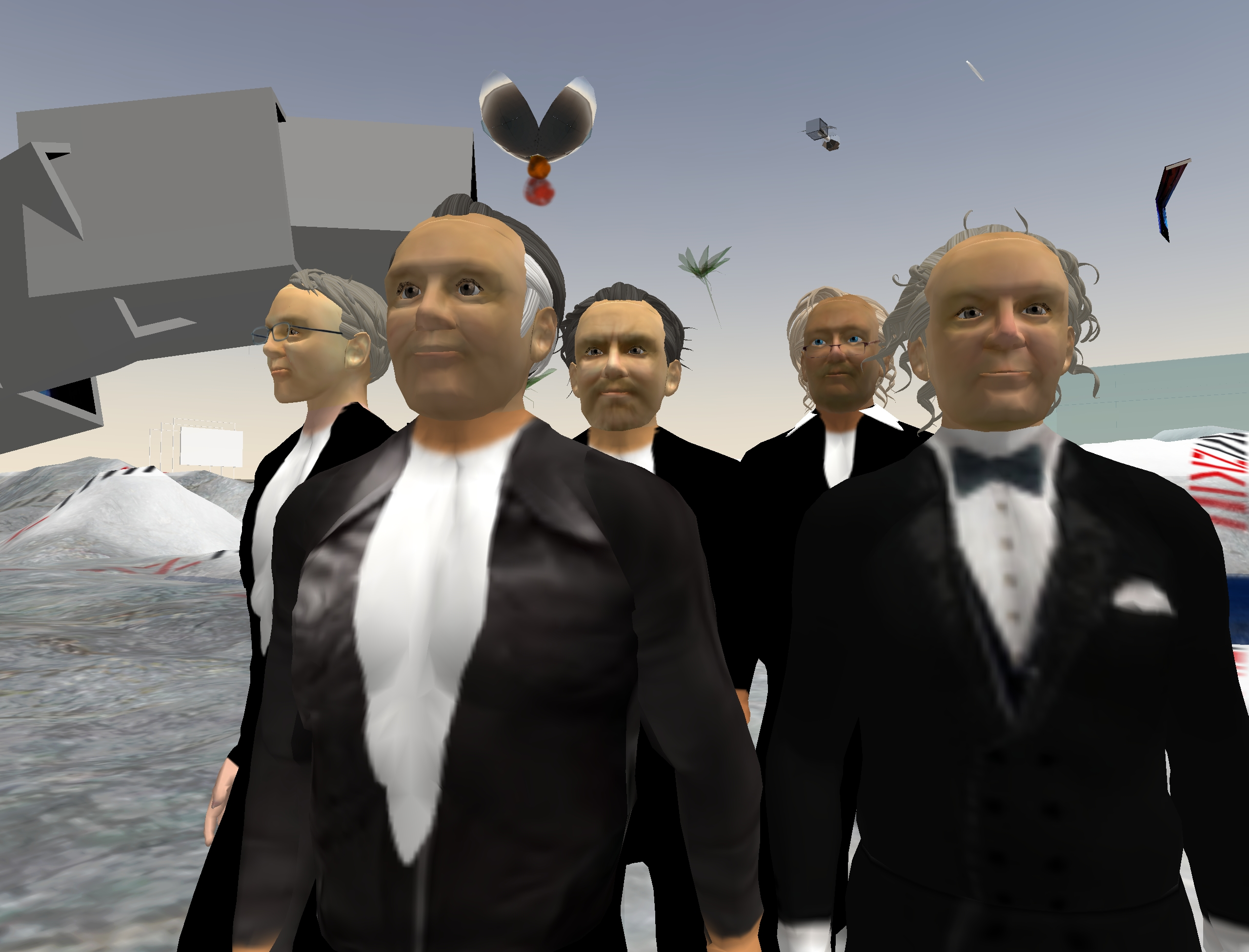 The 'Karlsruhe Kreis' (left-to-right): Boris Groys (cultural theorist), Peter Weibel (artist), Beat Wyss (art historian), Peter Sloterdijk (philosopher, Wolfgang Rihm (composer) avatars on ZKM 'YOUniverse' Island in Second Life, produced and directed by Philip Pocock, in collaboration with Stefan Gebhardt, Herwig Hoffmann, Felix Kratzer, Torrid Luna, Peter Weibel, Linus Stolz.